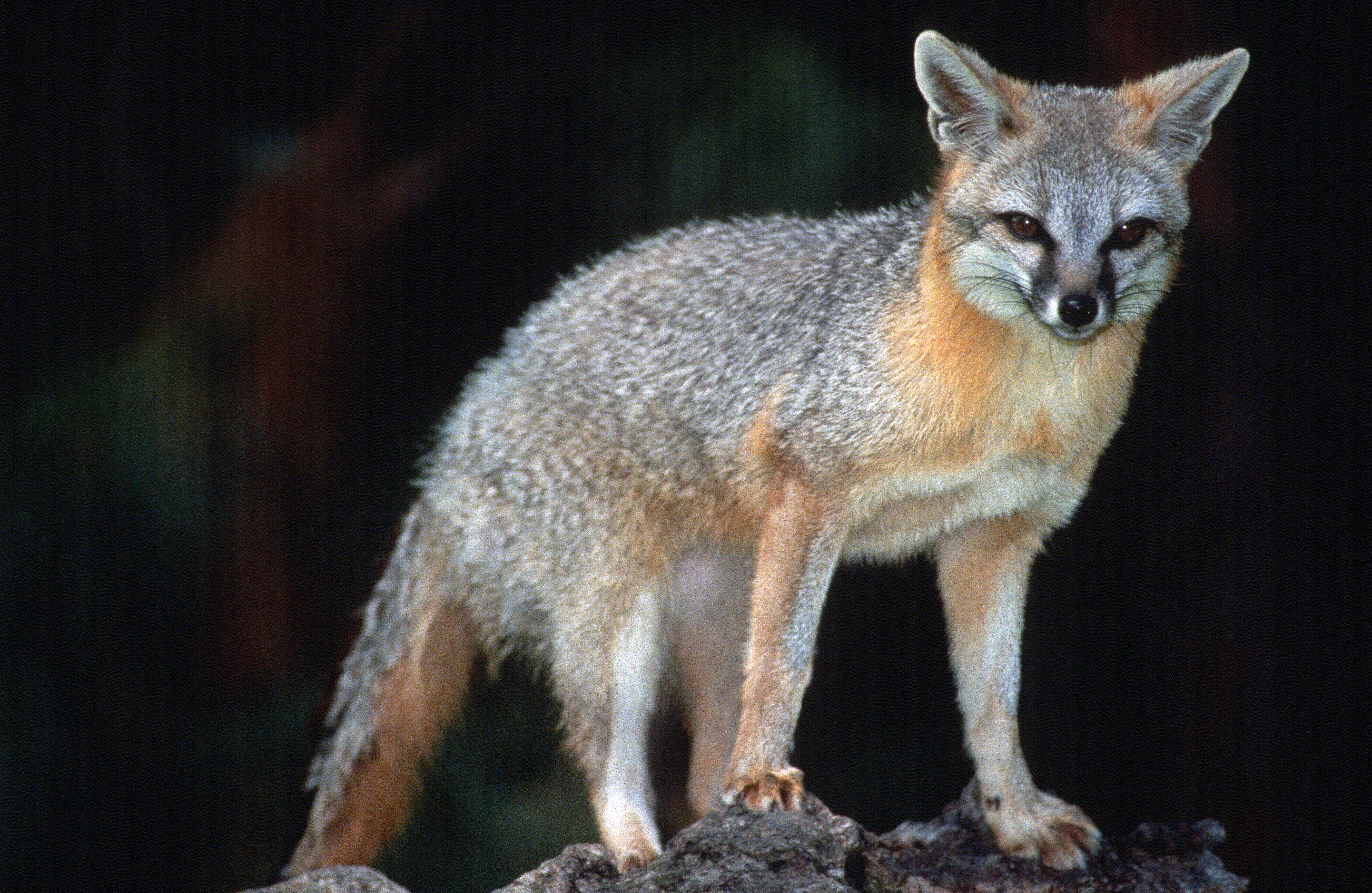 The grey fox (Urocyon cinereoargenteus) is the most common fox in California, with a silvery-grey coat with patches of yellow, brown, rust, or white on the neck and belly. They are mostly found in coastal or mountain forests at low elevations where they rest in hollow logs, under boulders and crevices. Their main source of food are small rodents, birds, insects, berries, acorns, eggs and fungi. The fox has short legs so it can climb trees to retrieve food and to seek refuge and measure from 21-29 inches in body length with a bushy tail around 15 inches long. Their mating season is mostly in January with three to five pups born in February or March and the pups will start to hunt within three months. This grey fox was on display at the California Living Museum in Bakersfield, Calif. Photo taken August 20, 1993.